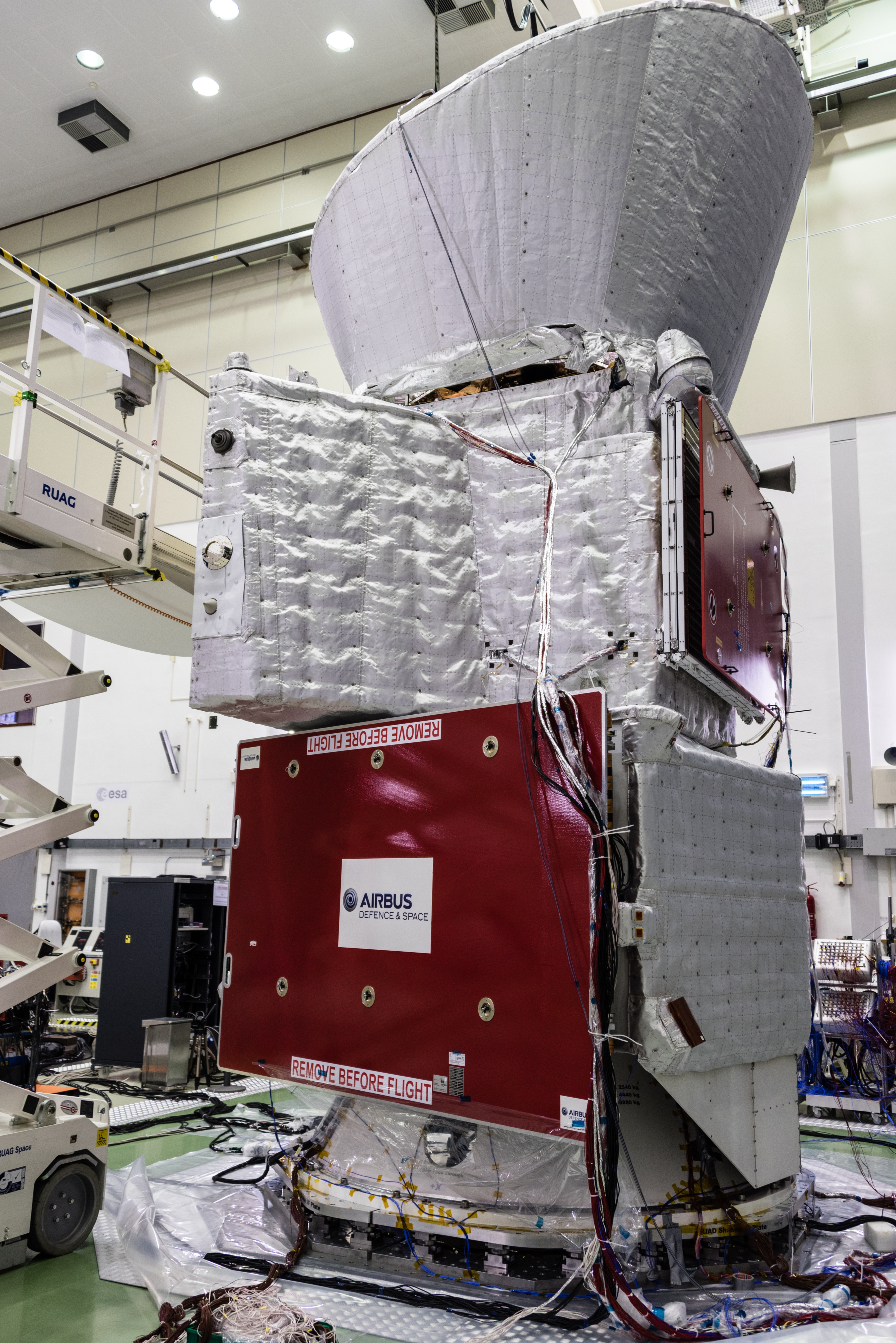 The full BepiColombo stack seen in ESA's test centre in May 2017. From bottom to top: the Mercury Transfer Module (sitting on top of a cone-shaped adapter, and with one folded solar array including protective cover visible to the left); the Mercury Planetary Orbiter (with the solar array seen towards the right, also folded with cover), and the Mercury Magnetospheric Orbiter’s Sunshield and Interface Structure (MOSIF). The Mercury Magnetospheric Orbiter sits inside the MOSIF, which will be discarded after arriving at Mercury.